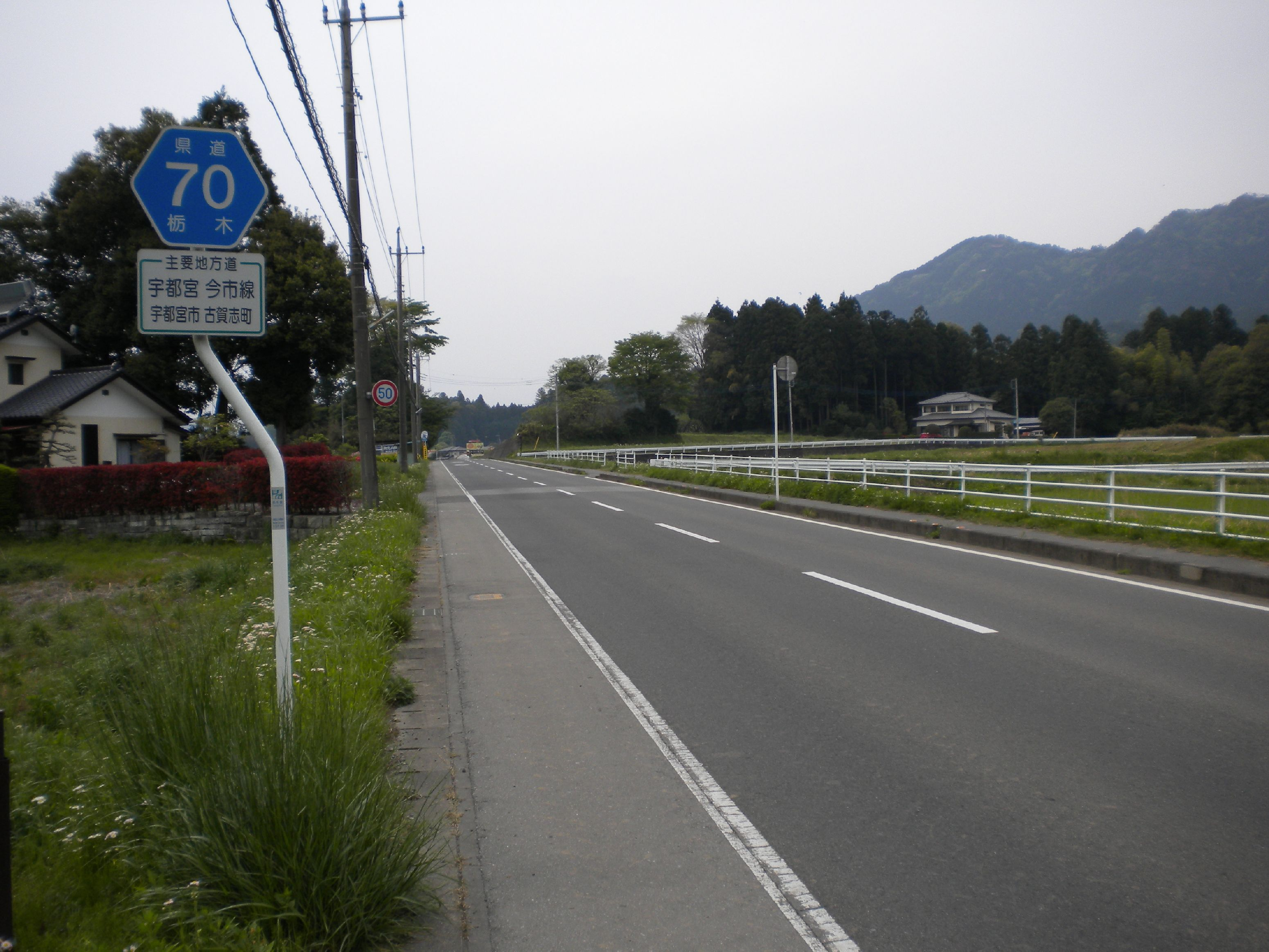 The Tochigi Prefectural Road Route 70 in Kogashimachi, Utsunomiya City